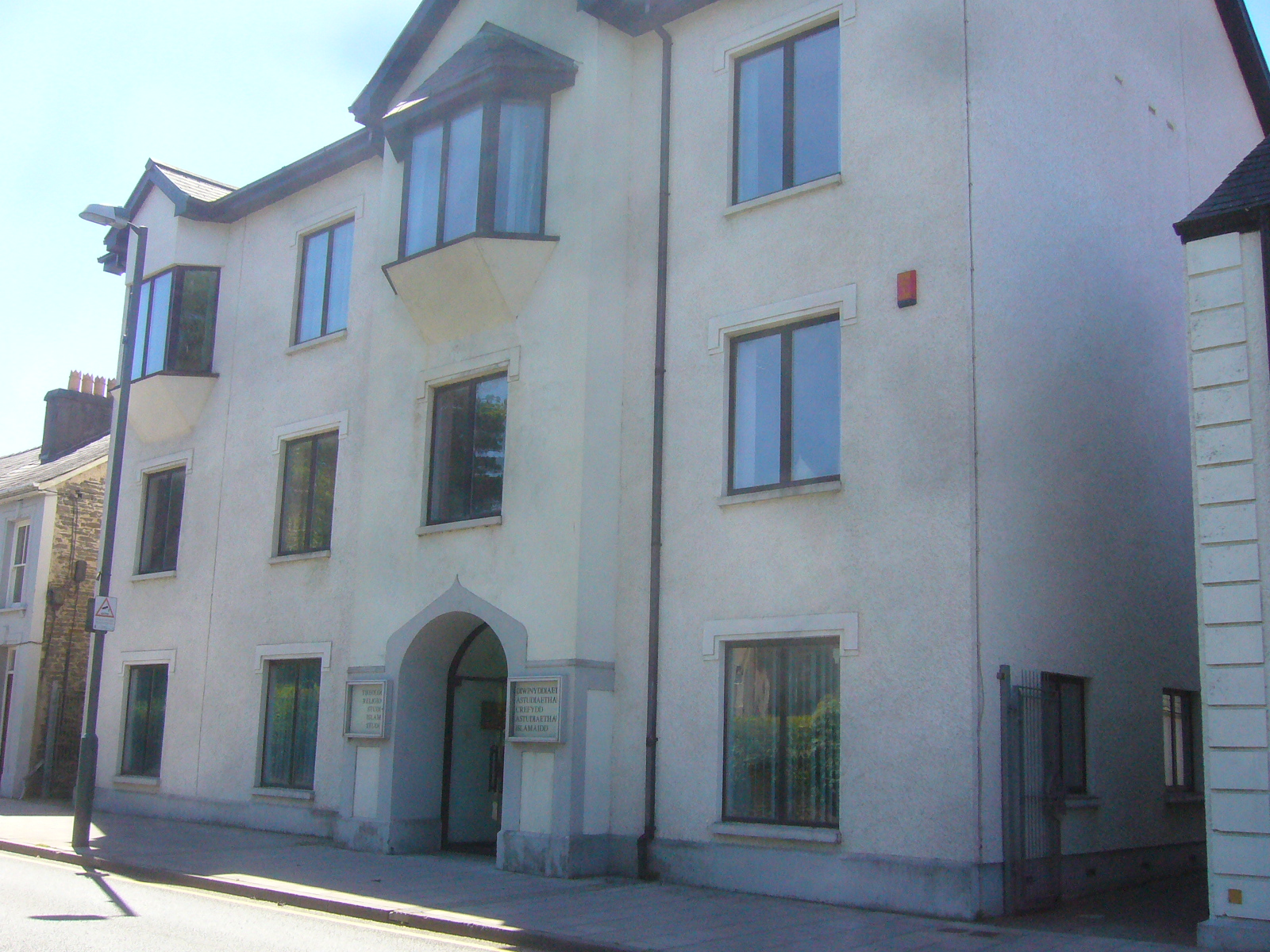 The Sheikh Khalifa Building, Lampeter